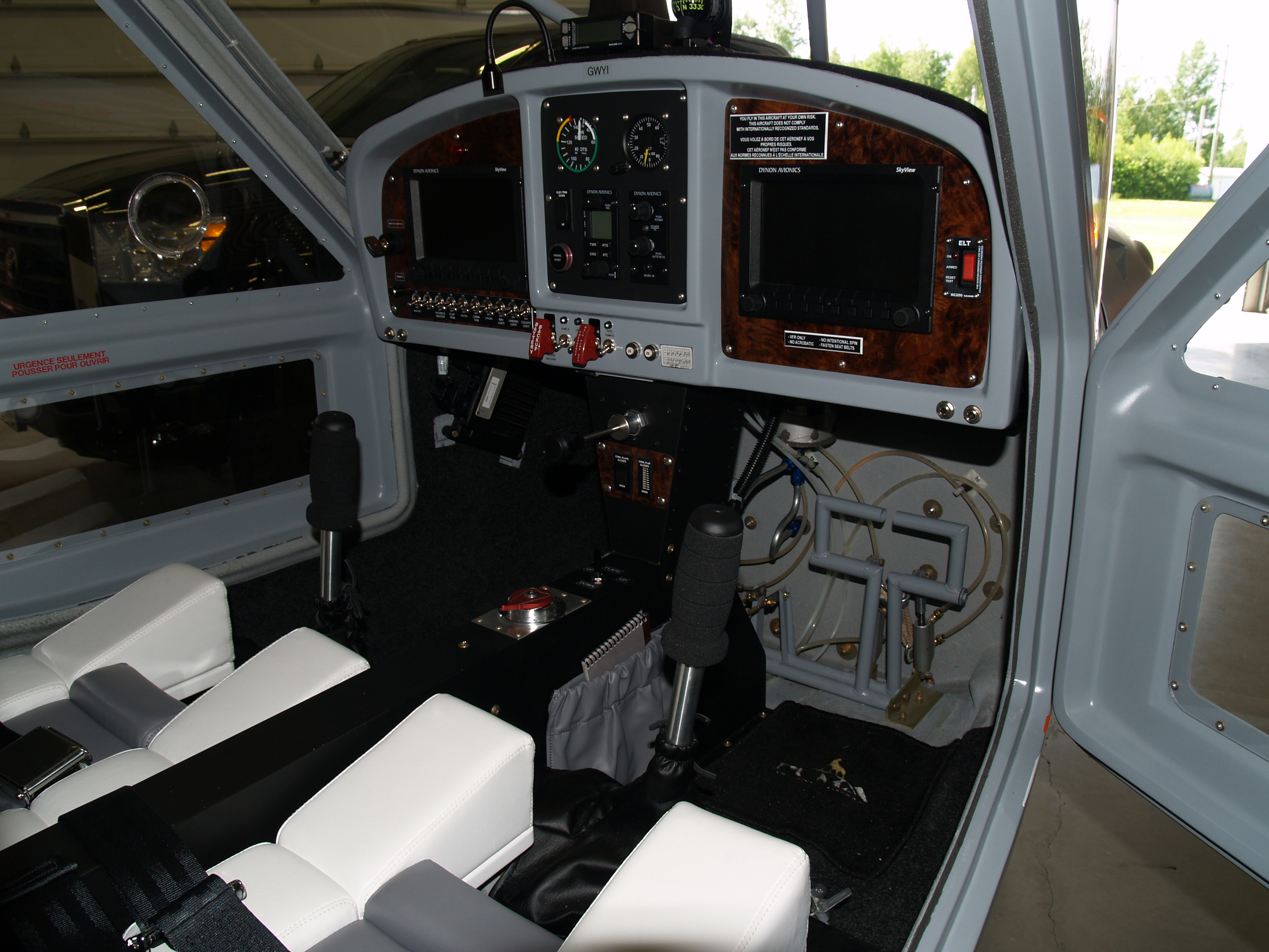 Dashboard Puma Limited/LSA